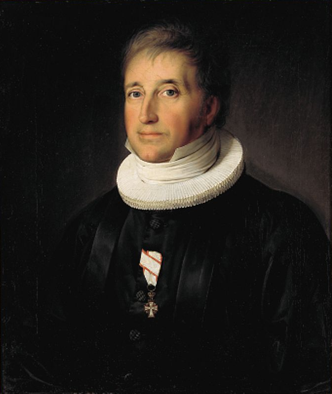 Christian Frederik Brorson (1768-1847) was a Danish priest and educator. Eckersberg also painted his wife Christiane Frederikke Caroline, née Hanson, and both paintings were included in the lot. The date of the paintings can be read from Eckerberg's diaries, November-December 1817.